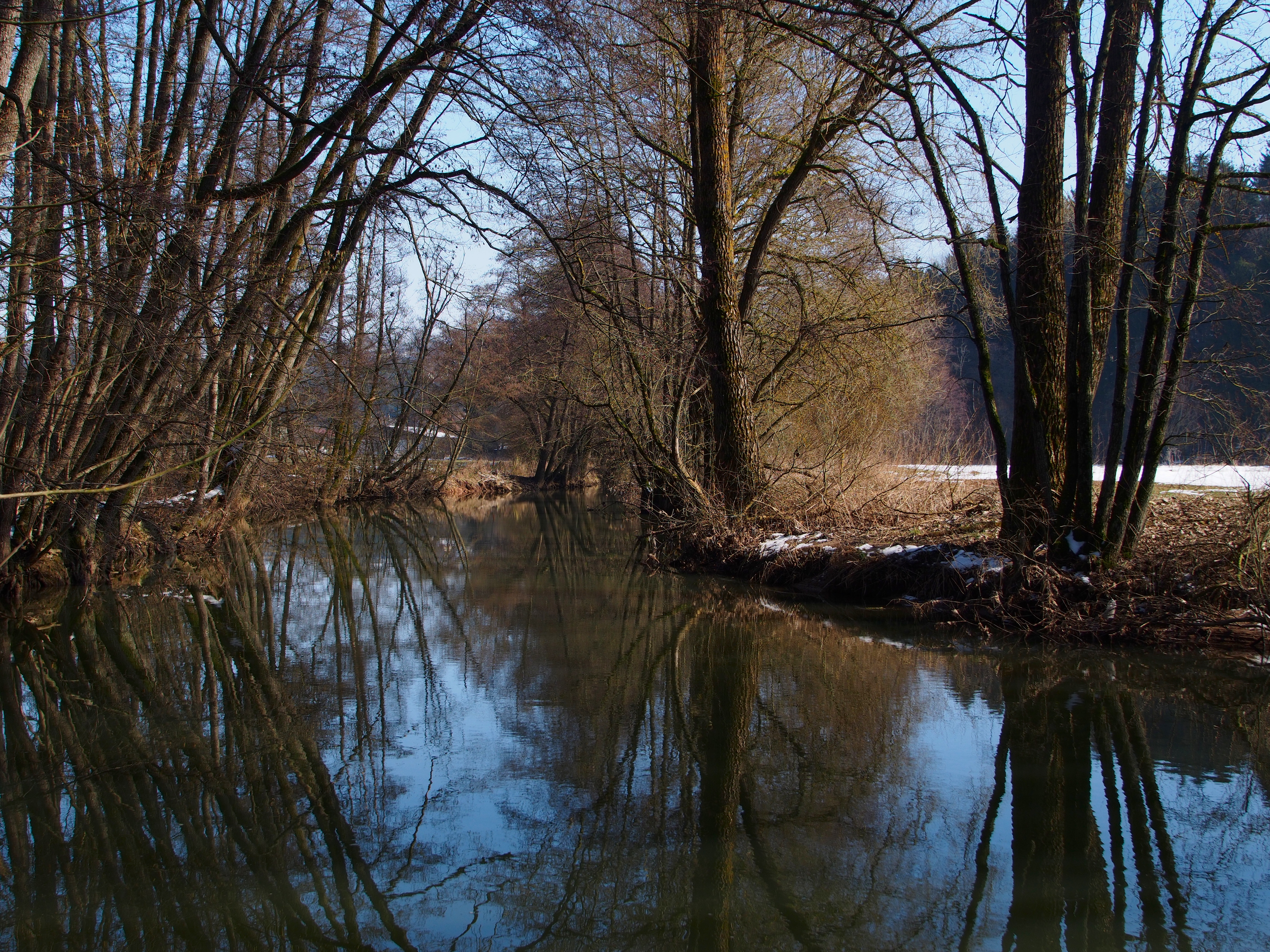 Course of small river Lein, Germany, below Leinzell